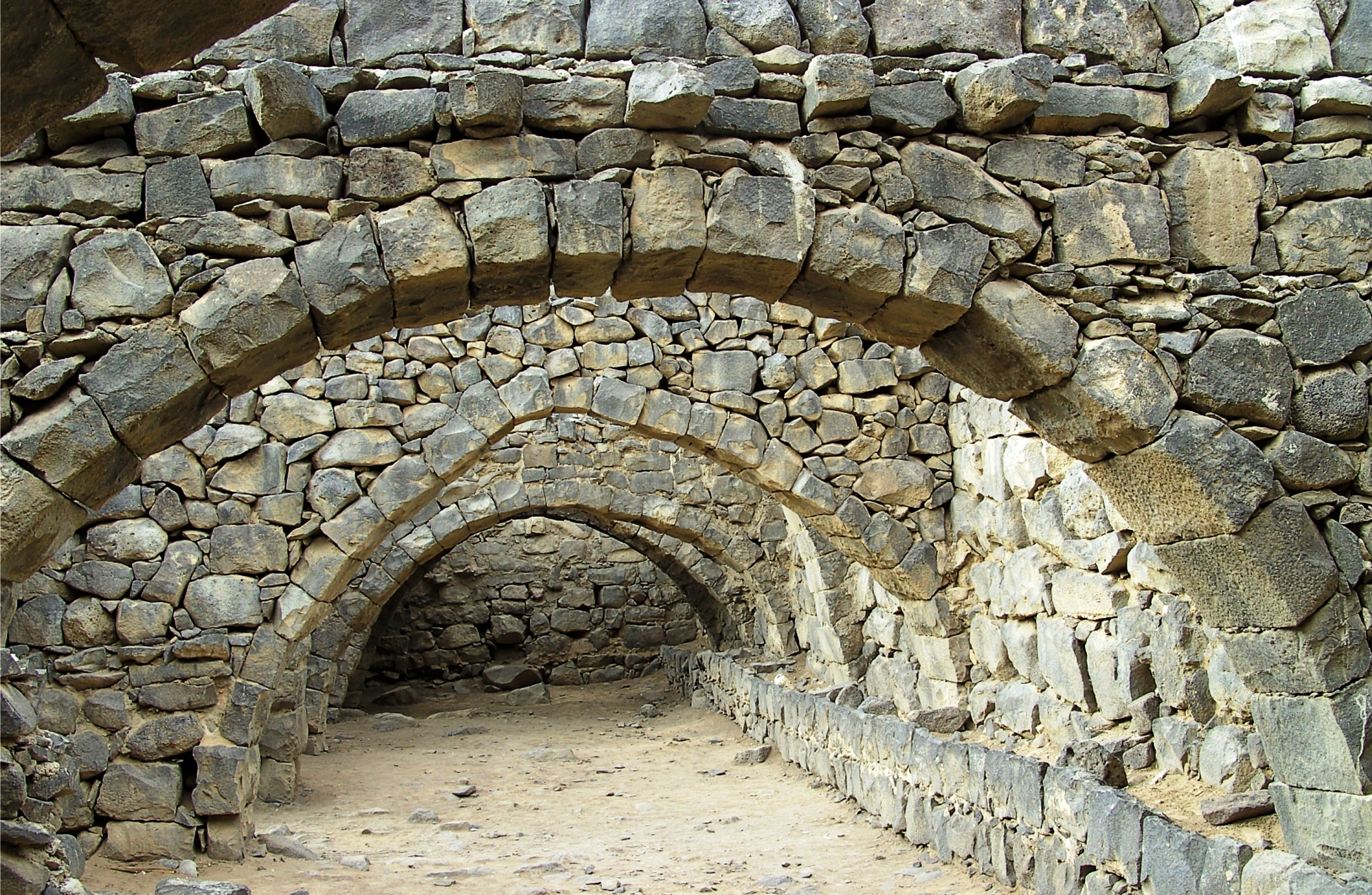 Stone archways of the fortress Qasr Azraq in Jordan.